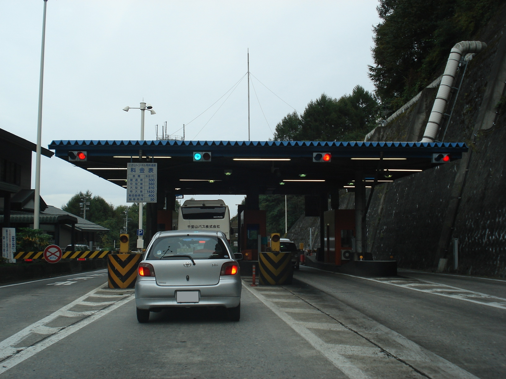 Toll gates on the Misayama Tunnel Toll Road in Nagano Prefecture, Japan